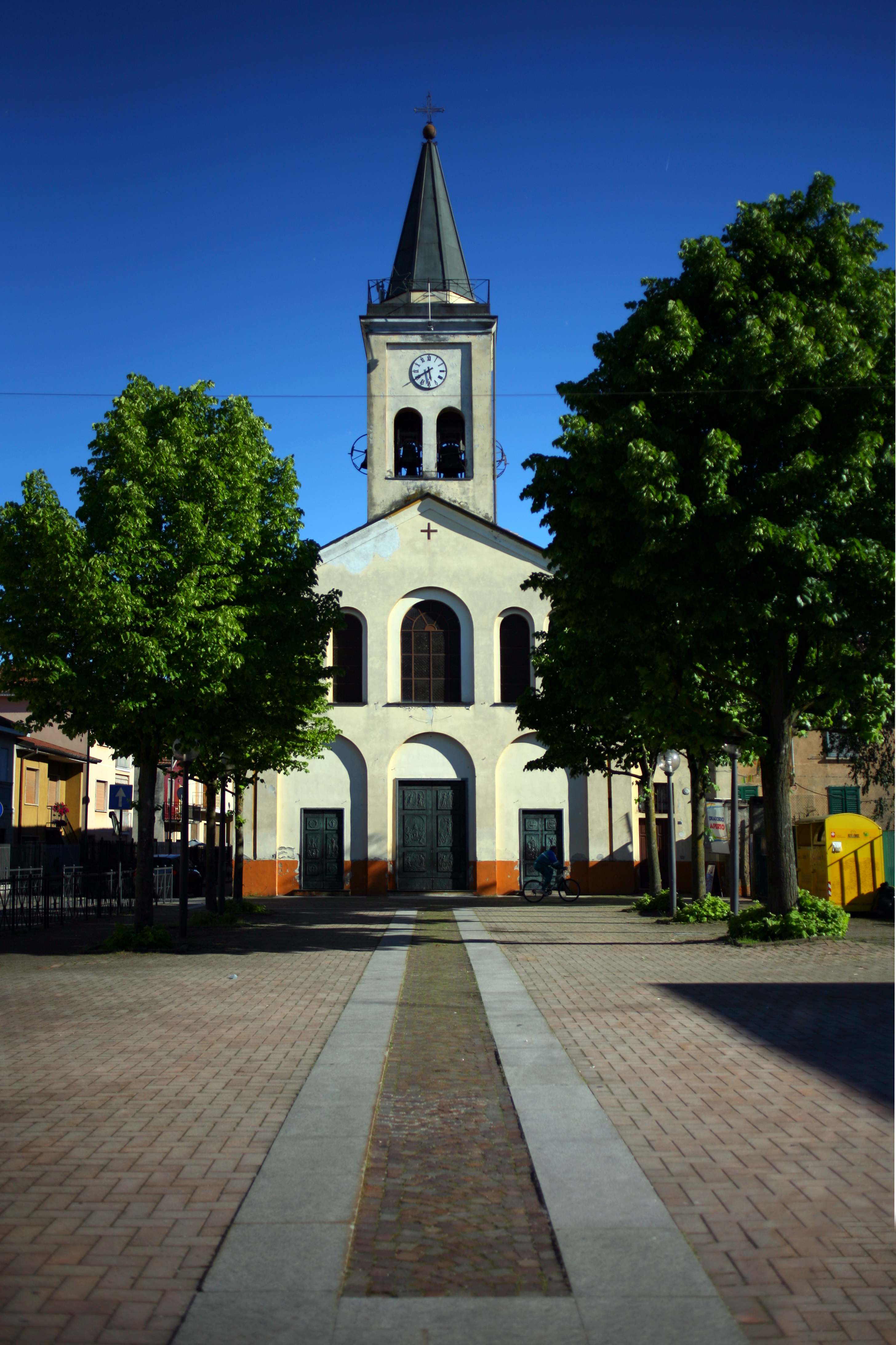 Santa Maria Nascente parish church in Moncucco, Milan